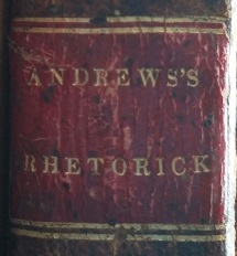 Spine title of John Andrews' book on Rhetorick